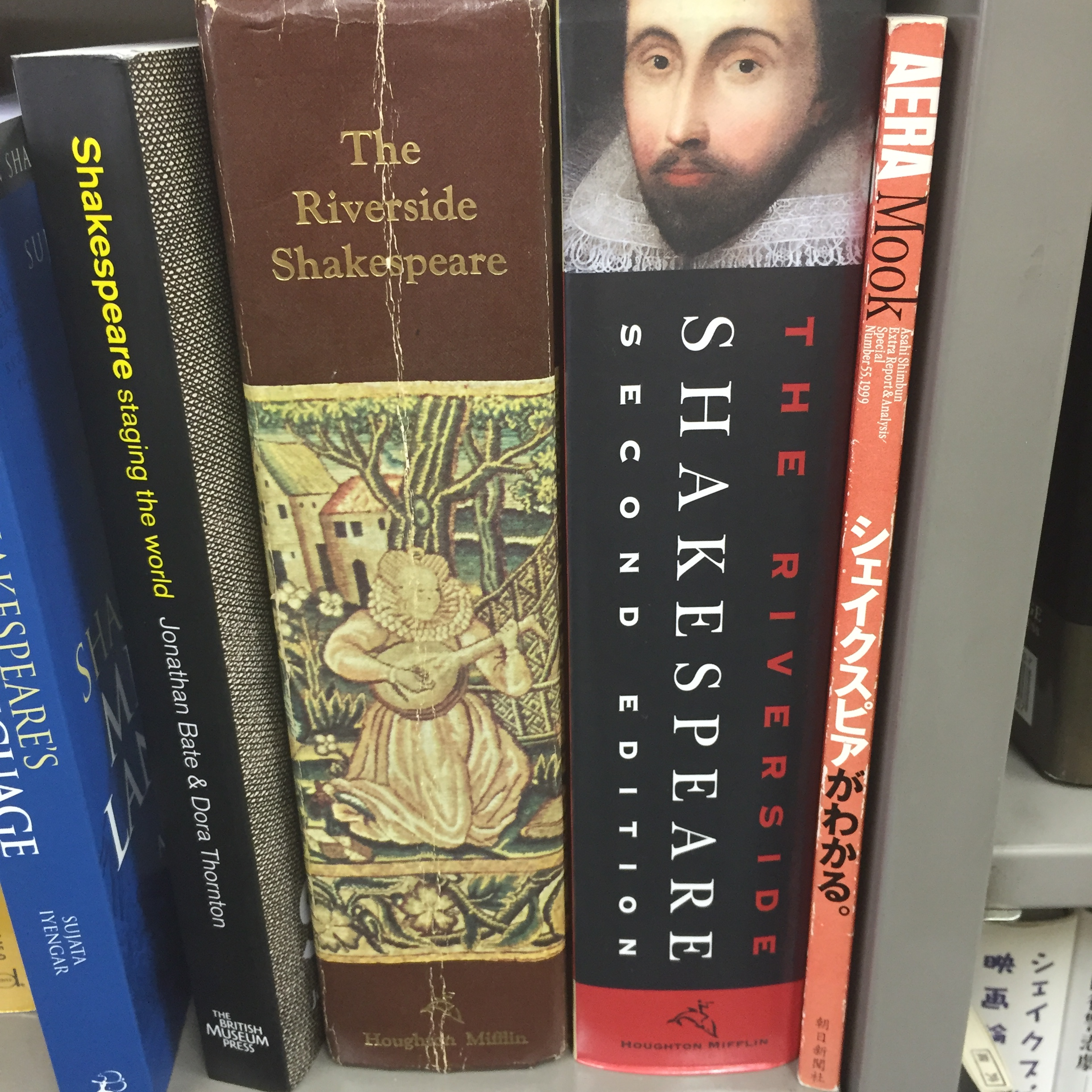 Two editions of Riverside Shakespeare